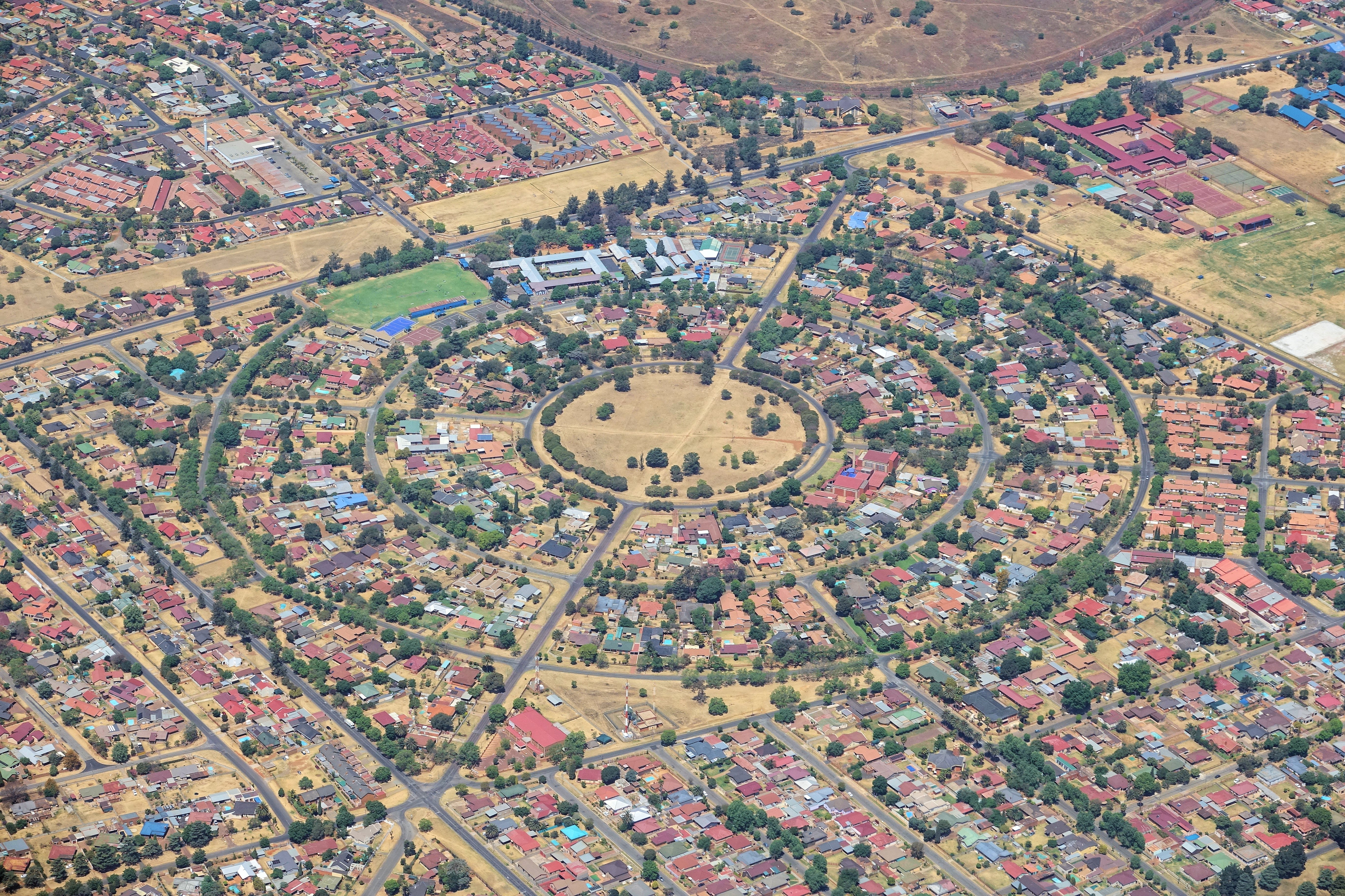 The center of Petersfield suburb, seen from the north from a commercial flight arriving at O. R. Tambo International Airport in Johannesburg, South Africa.